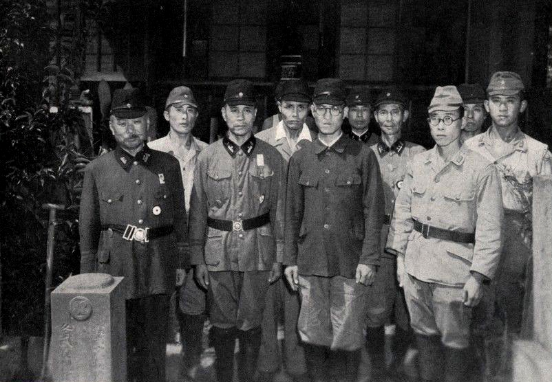 Members of the Japanese Imperial Police, circa in September 1945.